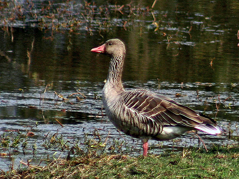 Greylag Goose Anser anser at Bharatpur, Rajasthan, India.